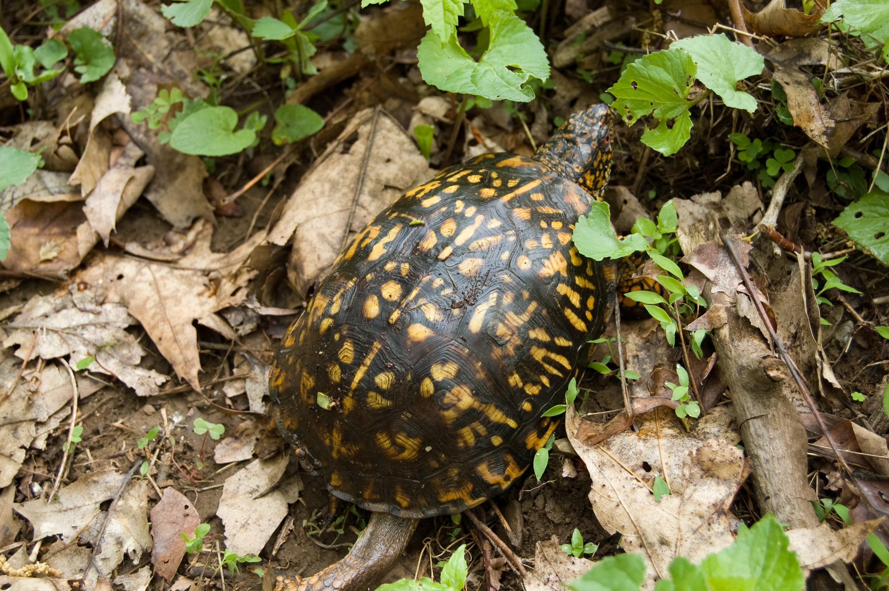 Common box turtle (Terrapene carolina carolina) in Shenandoah National Park, Big Devil Stairs trail.